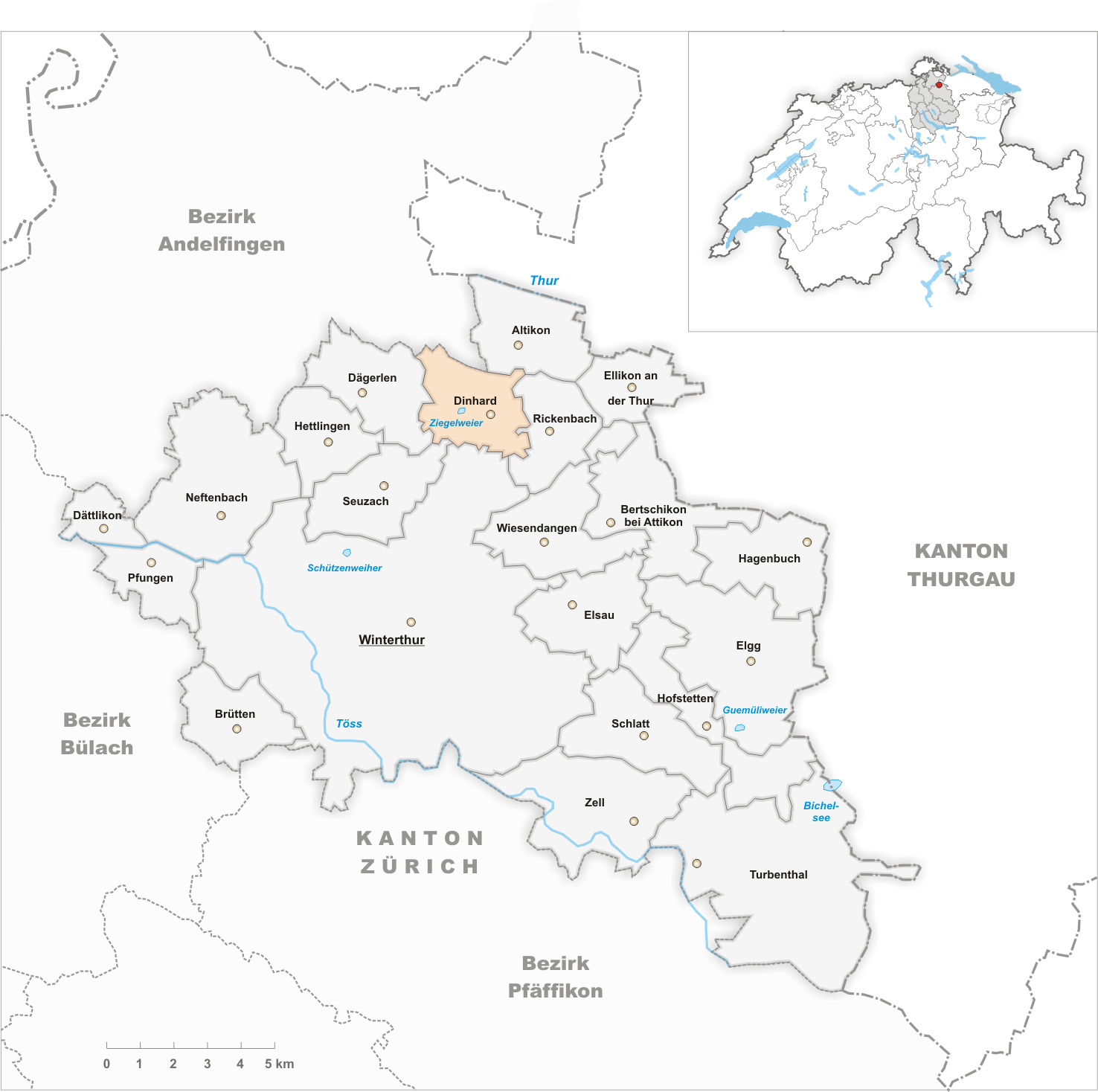 Municipality Dinhard